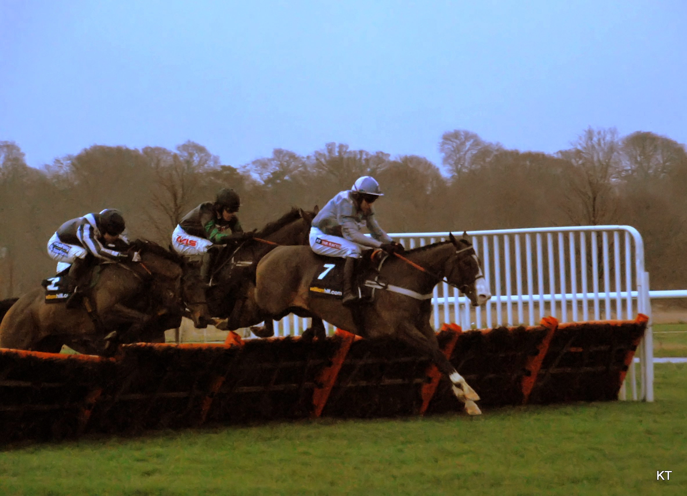 Christmas Hurdle - Countrywide Flame, Cinders and Ashes, Punjabi